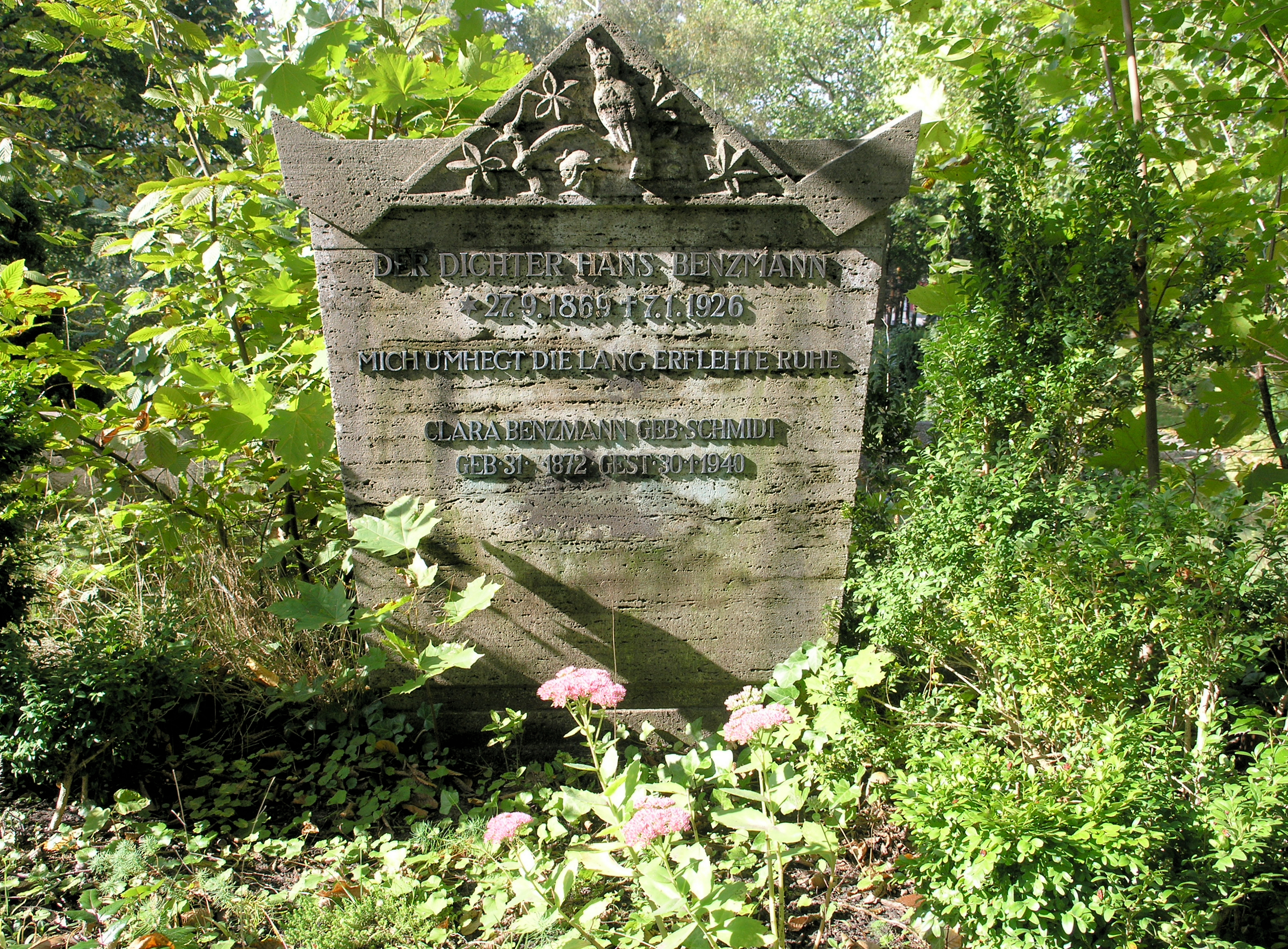 Graves, Hans Benzmann, Bergstraße 38, Berlin-Steglitz, Germany Koordinate:52°27′31″N 13°20′33″E / 52.45861°N 13.3425°E